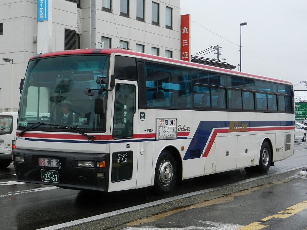 Aizu bus HINO S'elega (FHI 7HD body) For highwaybus "Aizu-Wakamatsu-Niigata"